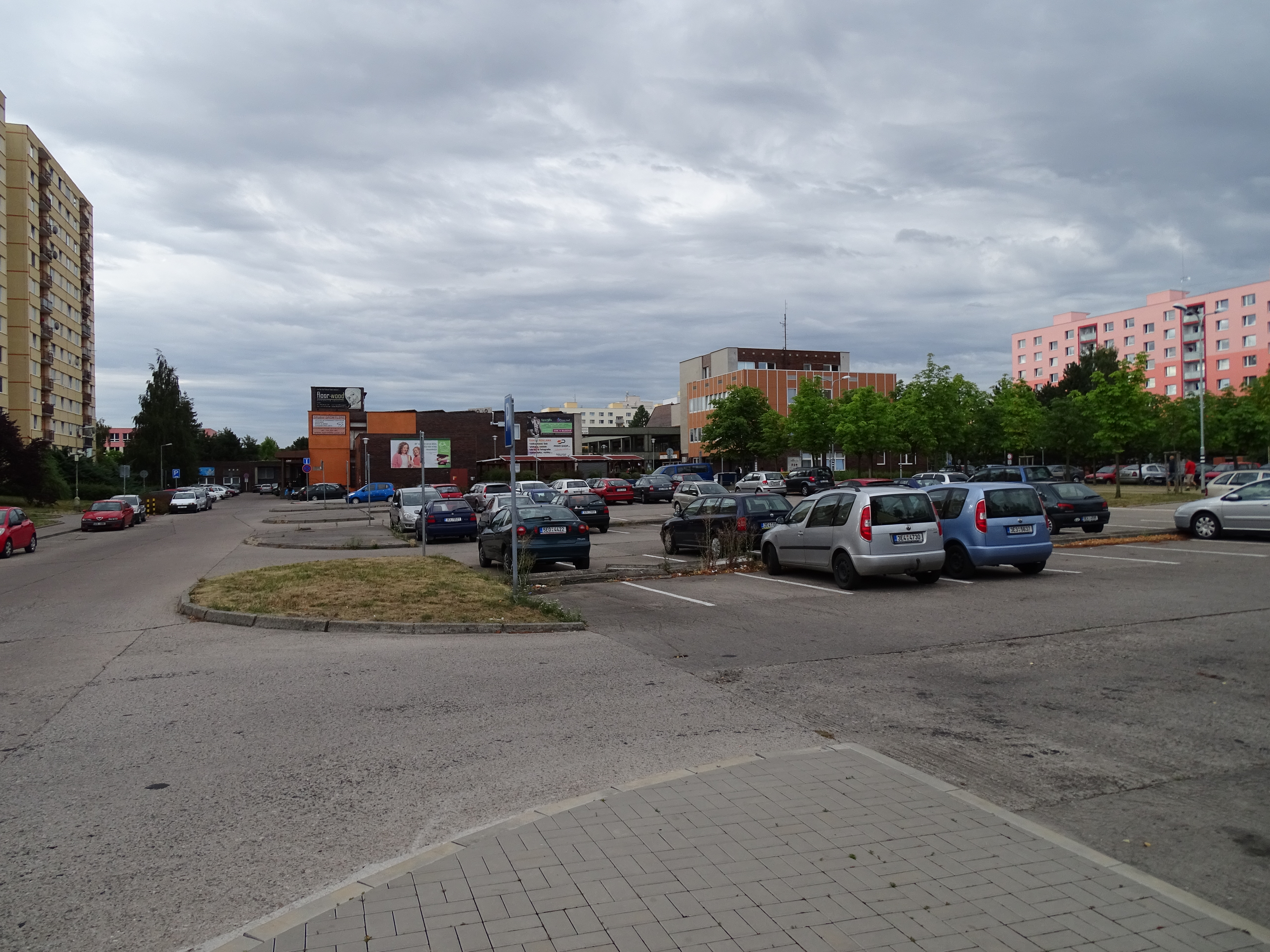 Pardubice III-Studánka, Pardubice District, Pardubice Region, Czech Republic. Dubina Housing Estate, Jana Zajíce street, a car park.